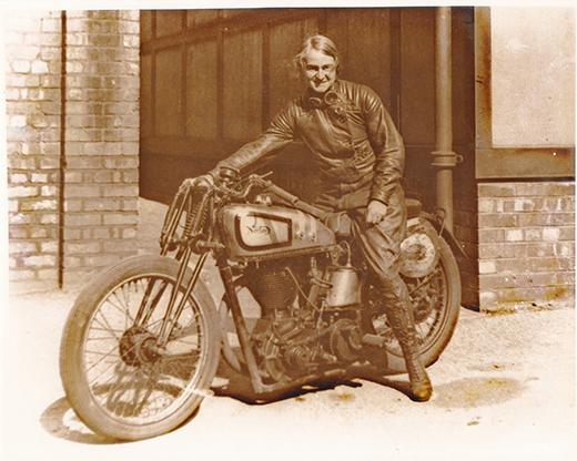 Beatrice Shilling poses on her Norton for a photograph used in the 1935 Norton catalogue. In the 1930s Shilling won a Brooklands Gold Star and in 1941 she invented Miss Shilling's orifice for aircraft carburettors.